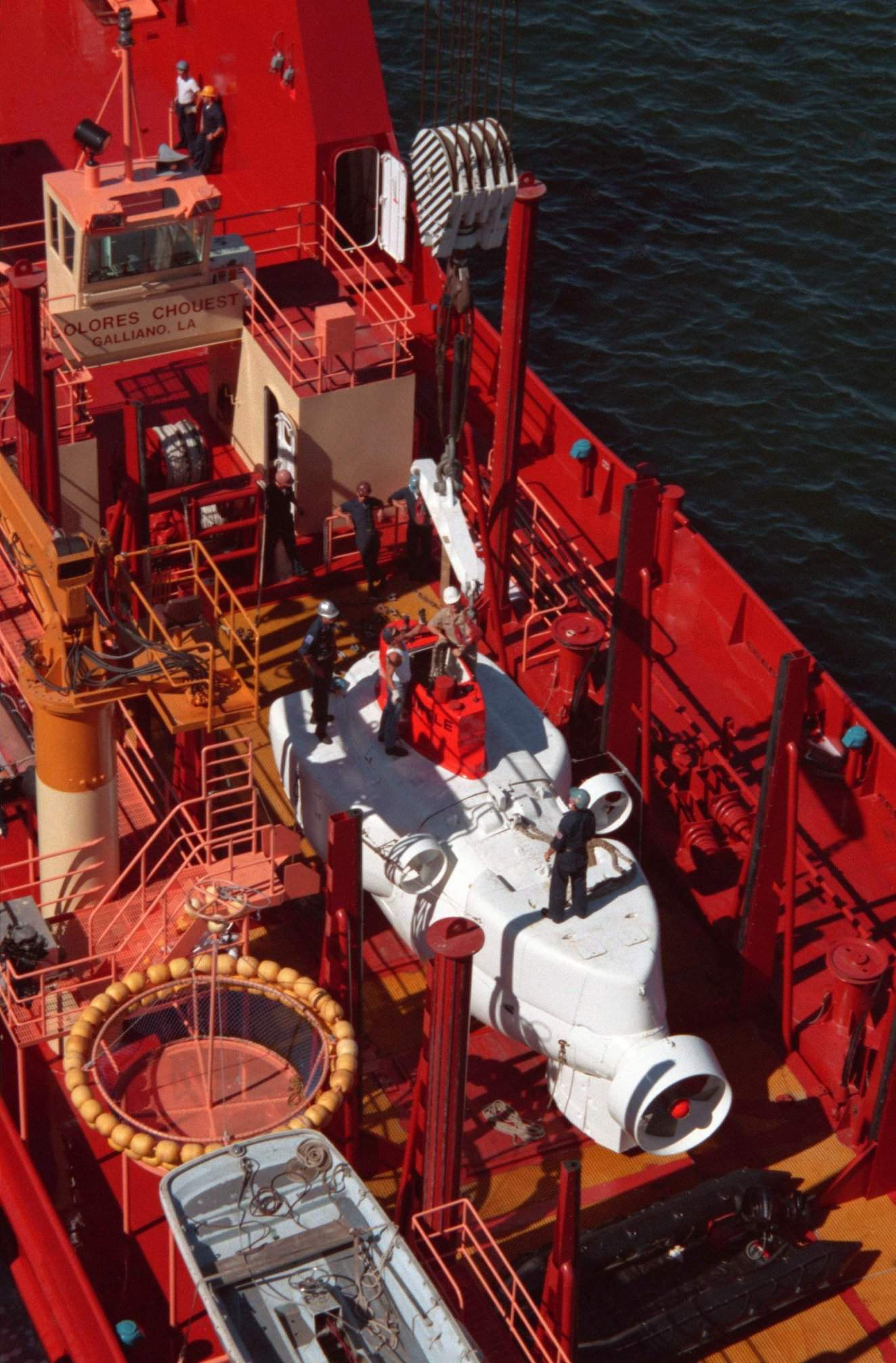 The US Navy (USN) 21-ton Deep Submergence Vehicle Turtle (DSV-3), Submarine Development Squadron 5 (COMSUBDEVRON FIVE), is prepared for hoisting from the deck of the Military Sealift Command's Submarine Support Vessel MV Dolores Chouest at Naval Air Station North Island (NASNI), California, after its return from sea trials on 1 Oct 1990. The Turtle is used in a wide variety of scientific research and recovery operations.